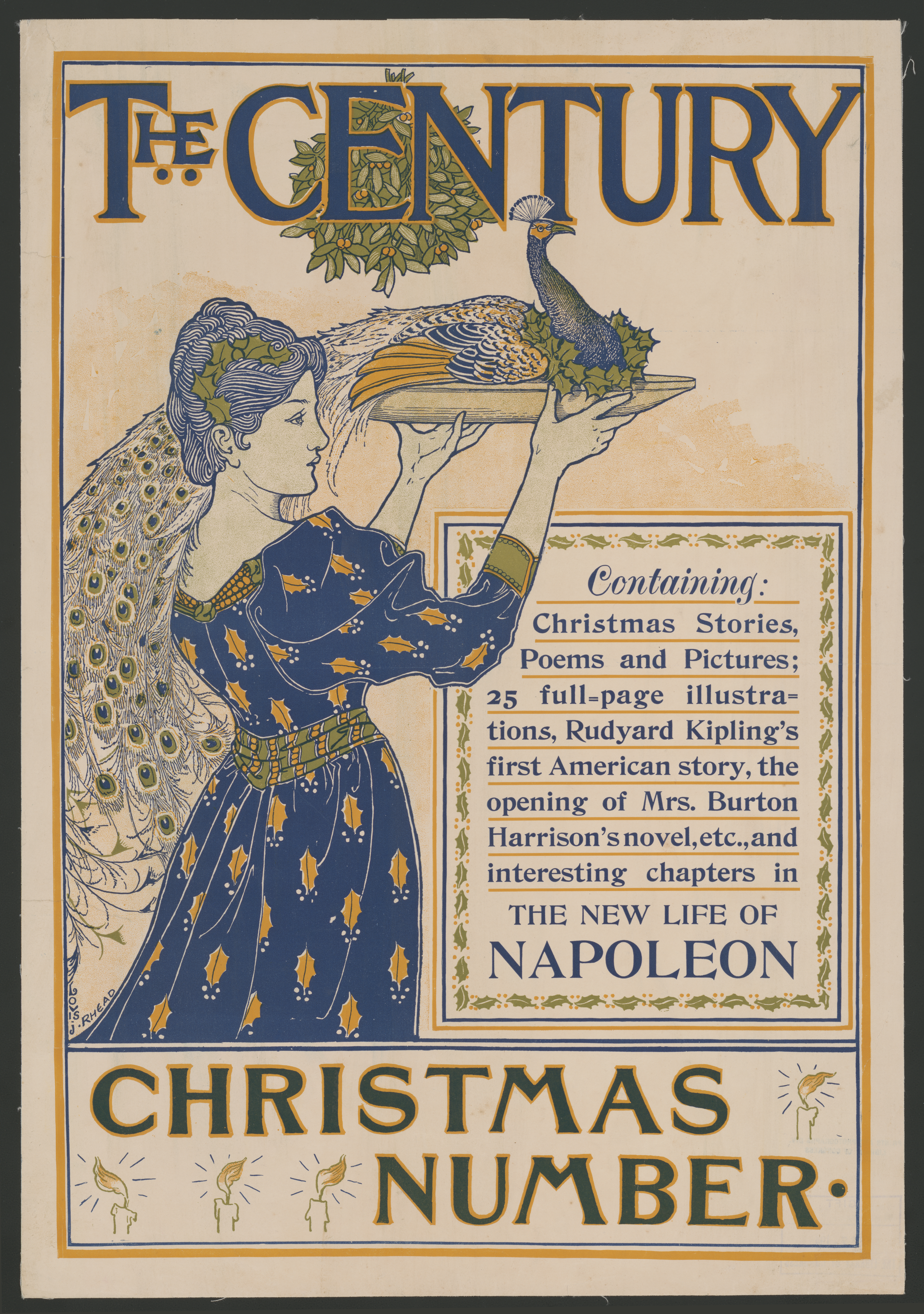 The Century containing...the new life of Napoleon, Christmas number